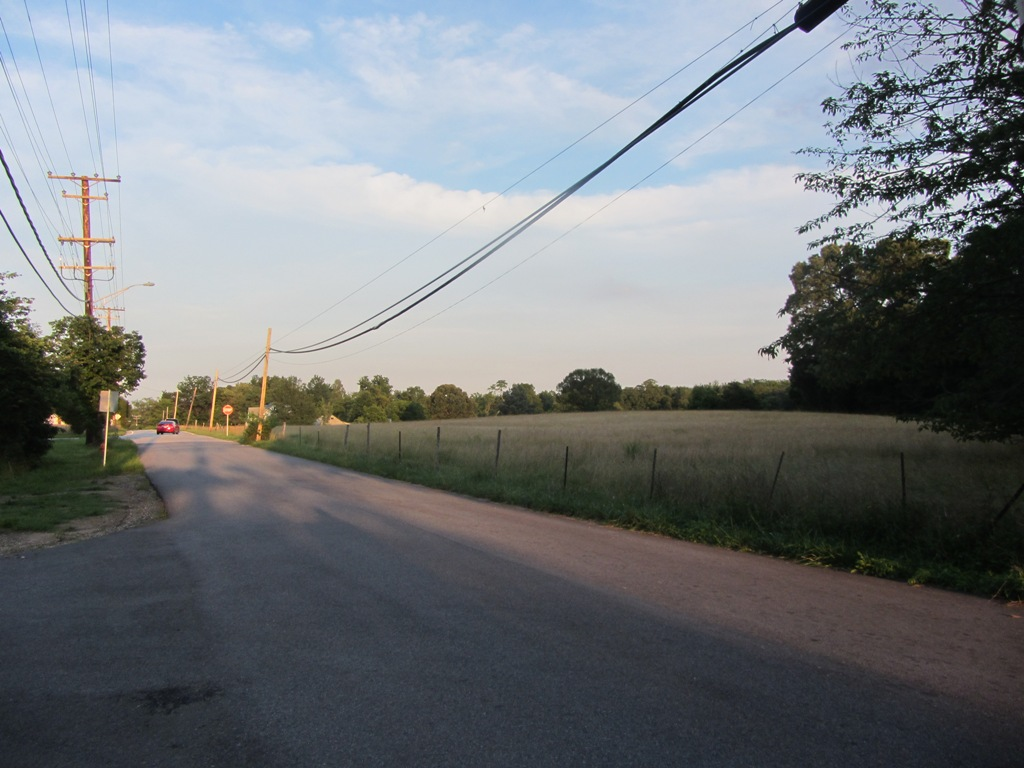 High Ridge, Maryland.